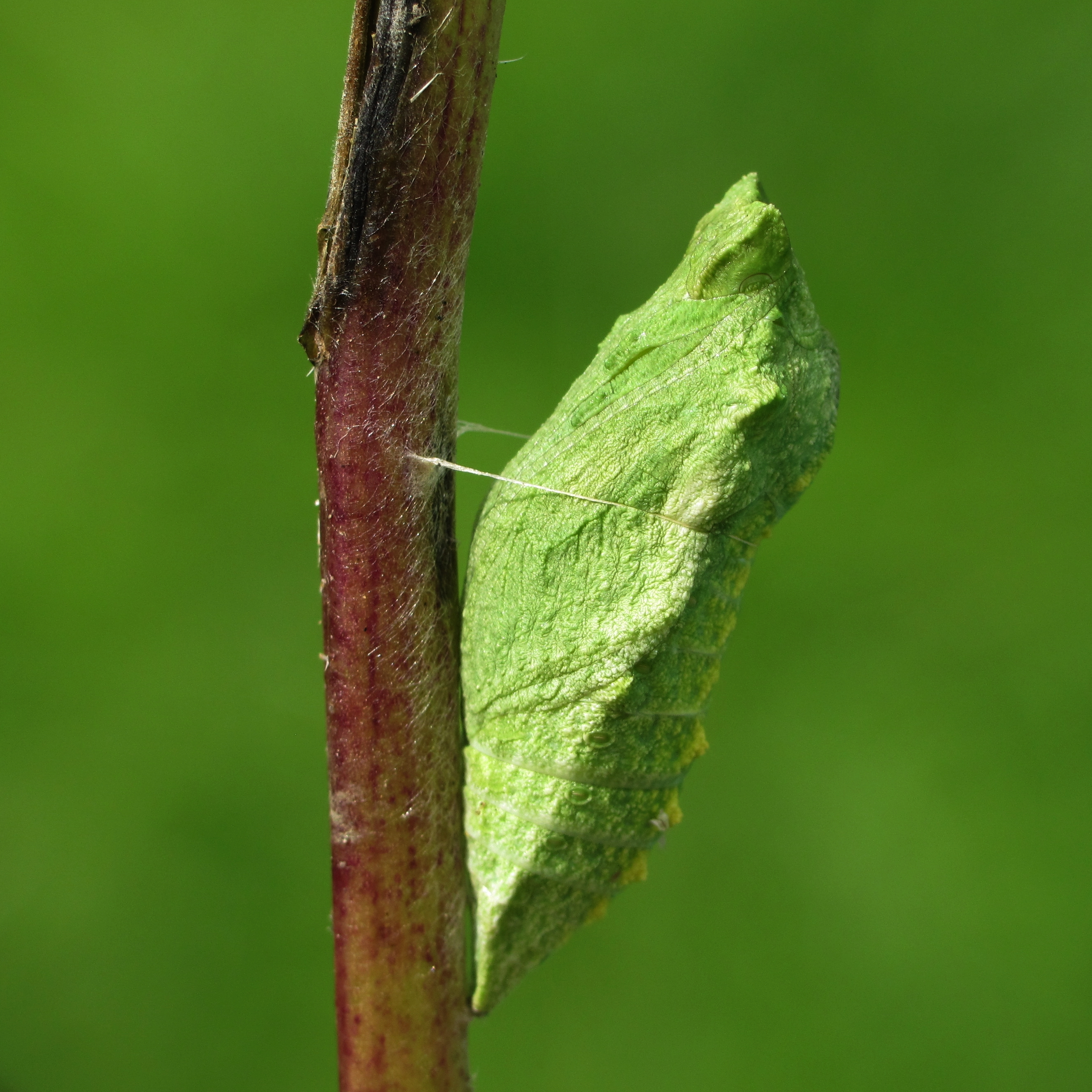 Old World swallowtail, common yellow swallowtail pupa